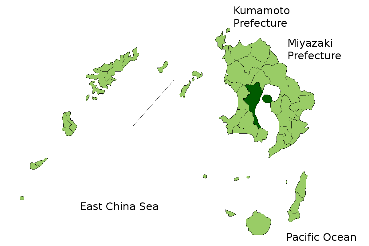 Location Map of Kagoshima in Kagoshima Prefecture, Japan